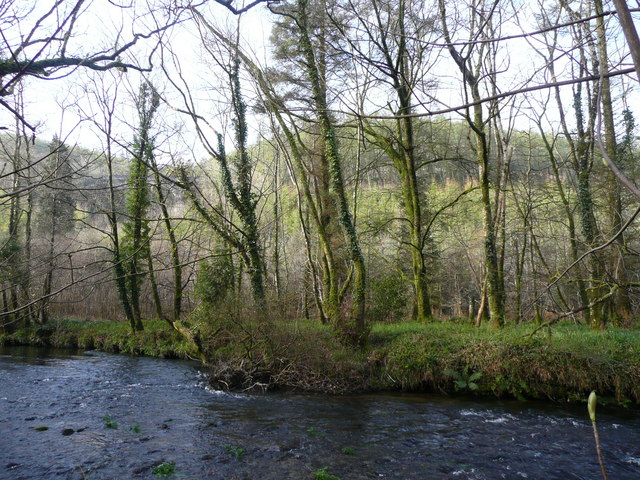 River Fowey and Largin Woods Just visible to the left is part of the West Largin viaduct of the Plymouth to Penzance main line.